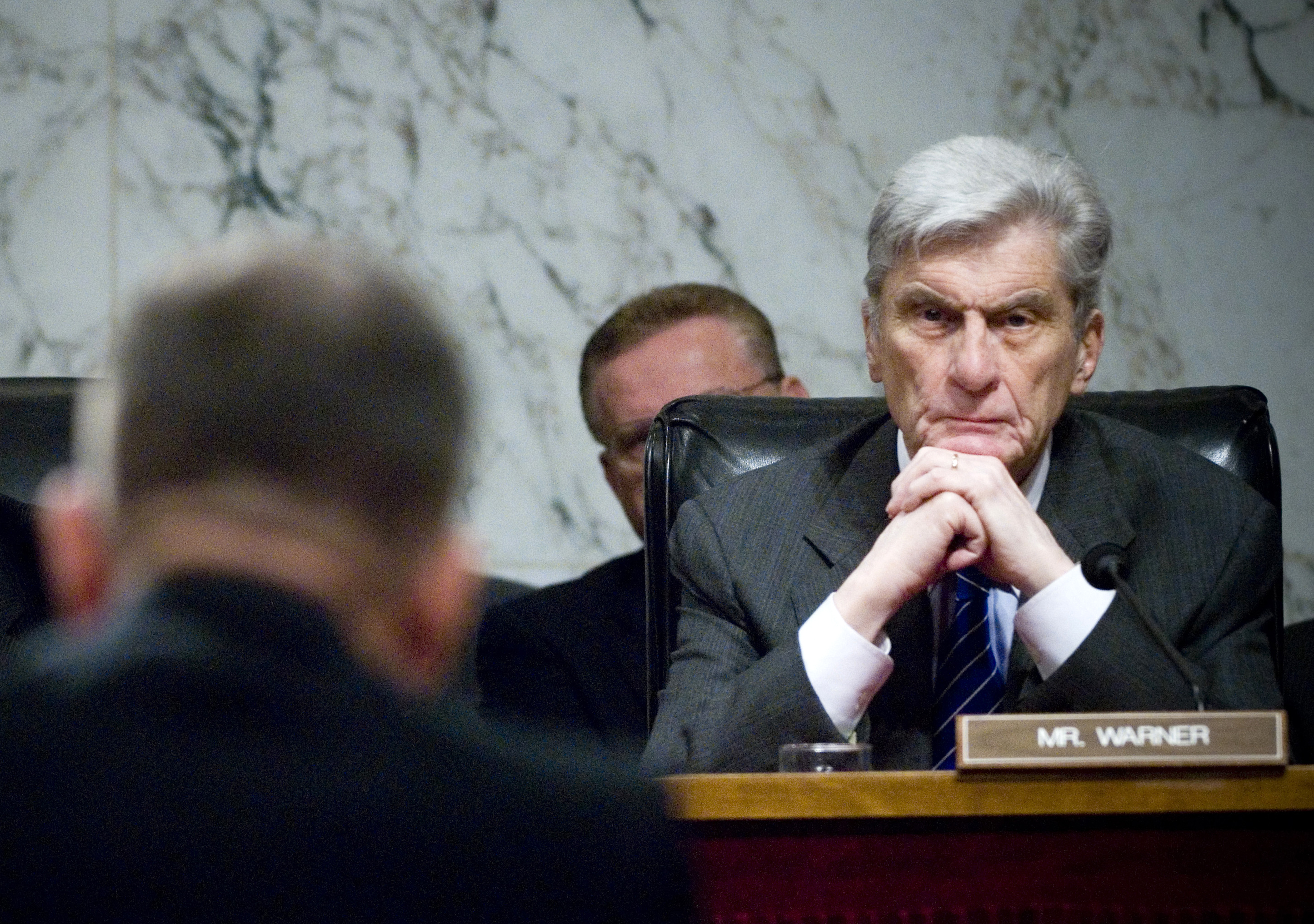 Senate Armed Services Committee Chairman Carl Levin and ranking member John Warner listen to Chief of Naval Operations, Adm. Mike Mullen's opening remarks during his confirmation hearing for appointment to Chairman and Vice-Chairman of the Joint Chiefs of Staff at Hart Senate Office Building in Washington, D.C., July 31, 2007. 070731-N-0696M-222